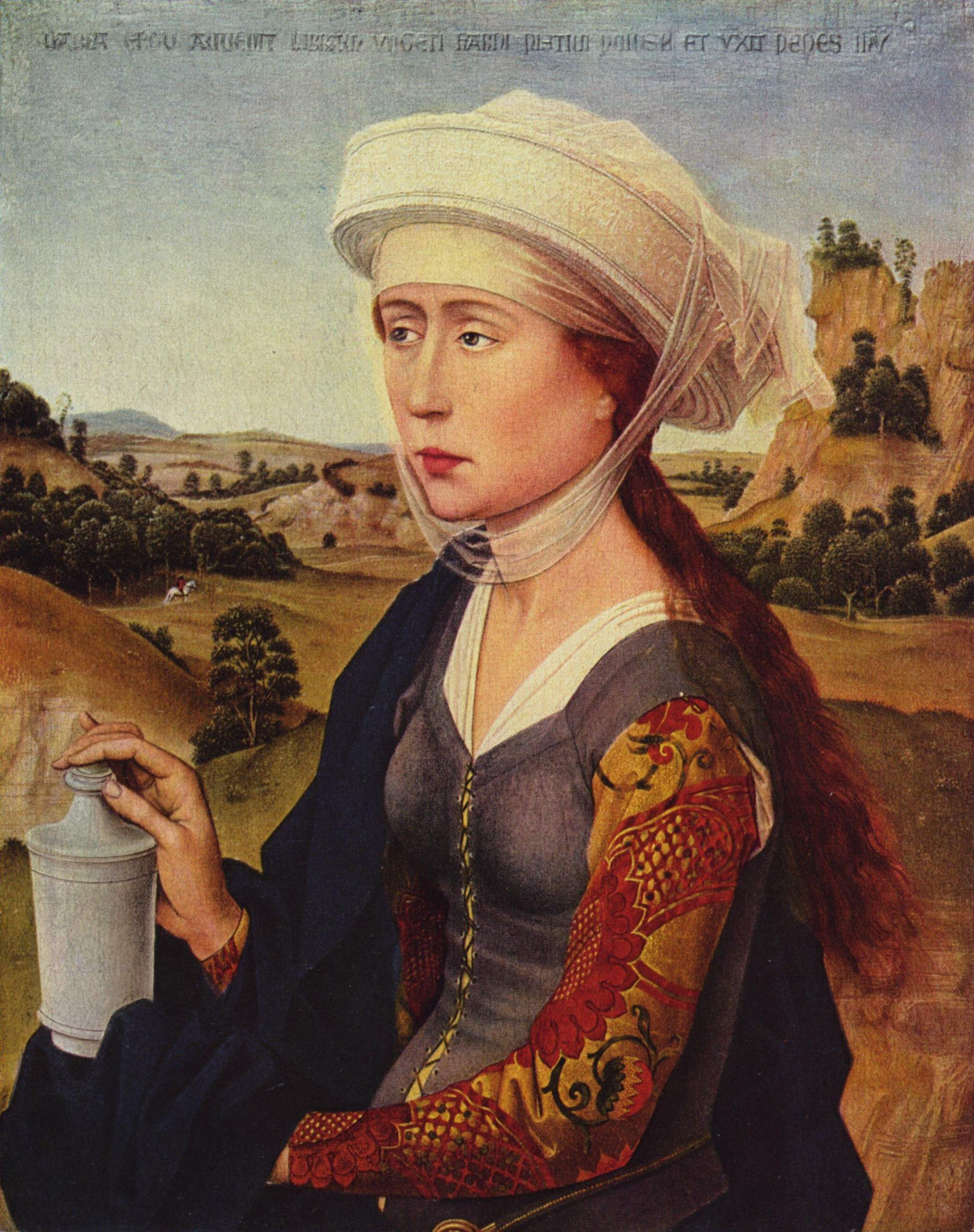 Inner right wing of the Braque Family Triptych.